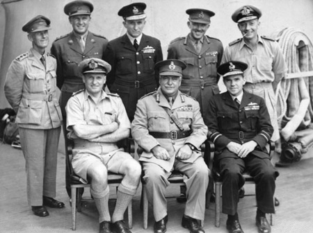 AWM Caption: Japan: Tokyo Bay. 2 September 1945. Australian delegates at the Japanese surrender ceremony on board USS Missouri. Left to right: (back row) Captain J. Balfour Lieutenant Colonel D. H. Dwyer Air Vice Marshal G. Jones Lieutenant General F. H. Berryman Commodore J. A. Collins Front row: Rear Admiral George Moore General Sir Thomas Blamey (who signed for Australia) Air Vice Marshal W. D. Bostock